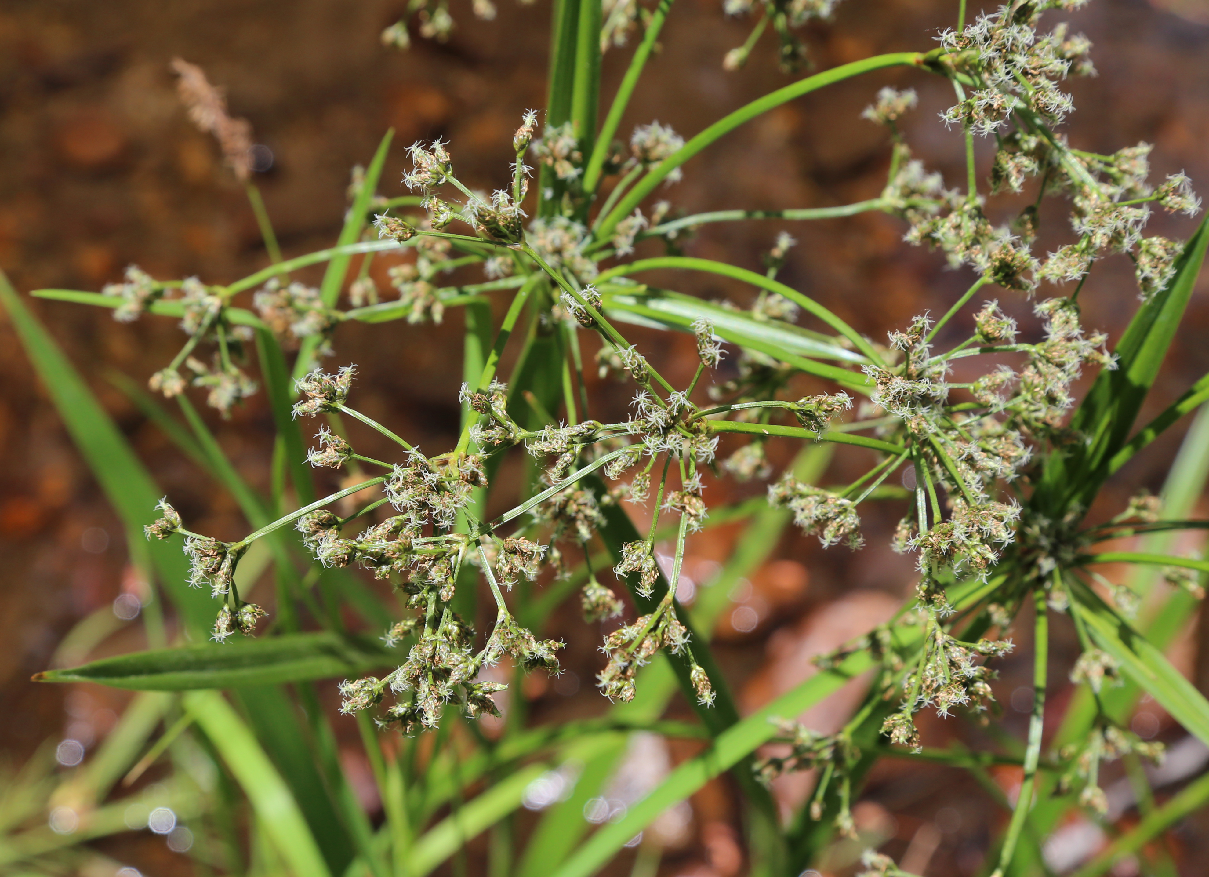 Group of Scirpus microcarpus flowerheads (small-fruited bulrush), close. Along Bishop Creek at 8,500 ft (2,600 m) in Aspendell, Inyo County, California, USA.